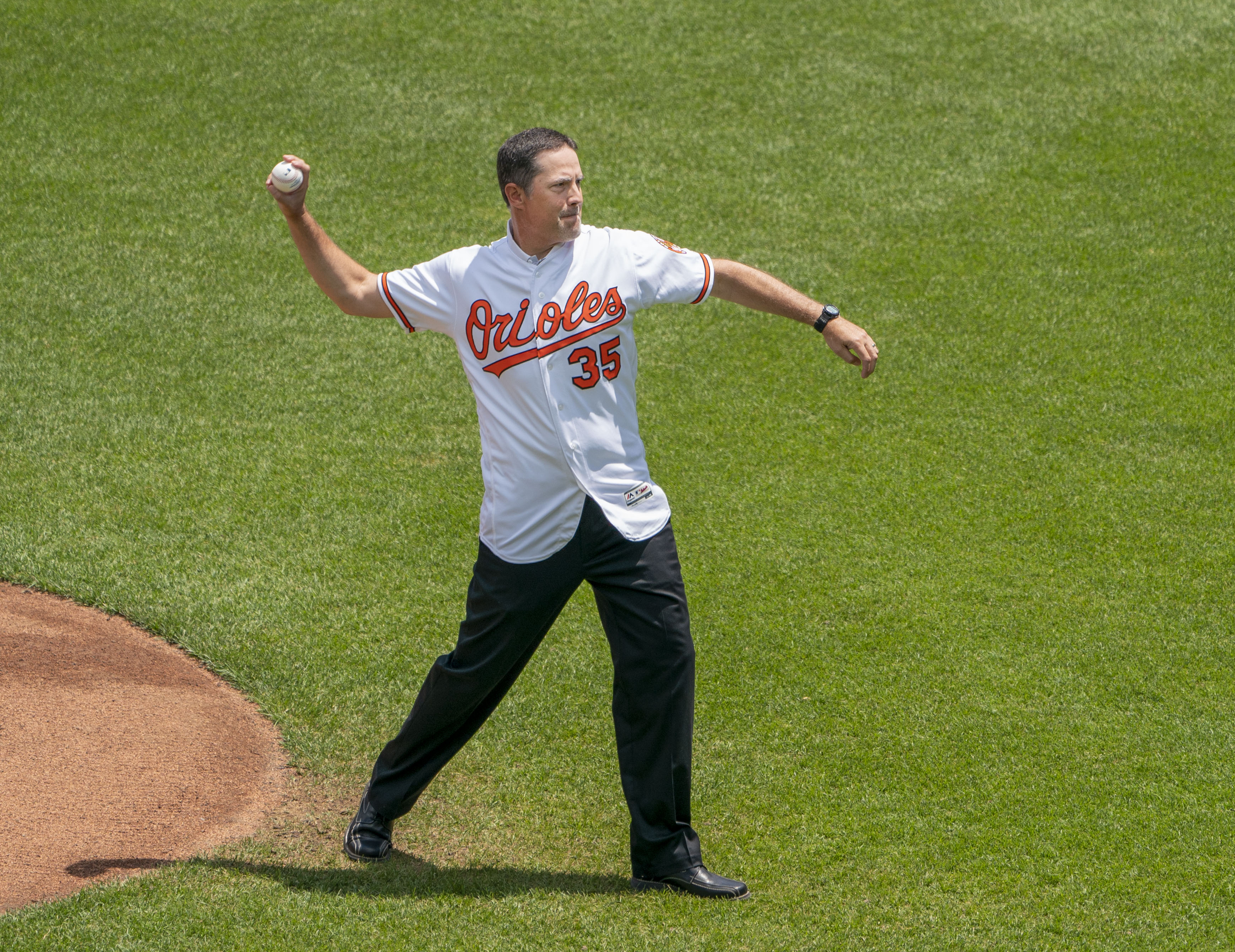 Former Baltimore Orioles pitcher Mike Mussina throws out the ceremonial first pitch before a game between the Cleveland Indians and Baltimore Orioles at Oriole Park at Camden Yards on June 30, 2019 in Baltimore, Maryland.